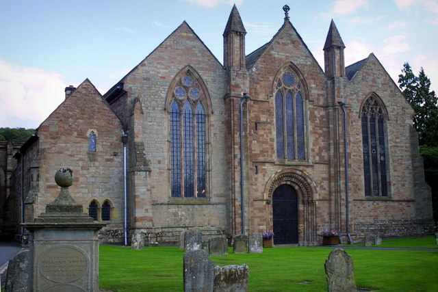 St. Michael & All Angels' Church, Ledbury. Ledbury is reckoned to be the finest non-monastic church in Herefordshire. This vast church is mostly 13th & 14th century, and consists of a large arcaded nave with side aisles, chancel, sanctuary and chapels of St. Anne and Our Lady. The so called 'chapter house,' built around 1330, was supposedly erected by monks from St. Guthlac's in Hereford.